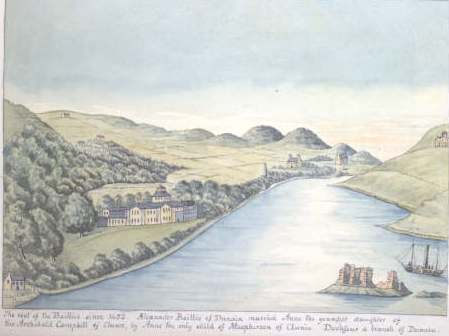 very low quality & resolution reproduction of a watercolour of Dochfour house, Inverness, Baillie seat, circa 1810. 1780 rebuilding of the 1452 house burnt in 1745.jpg